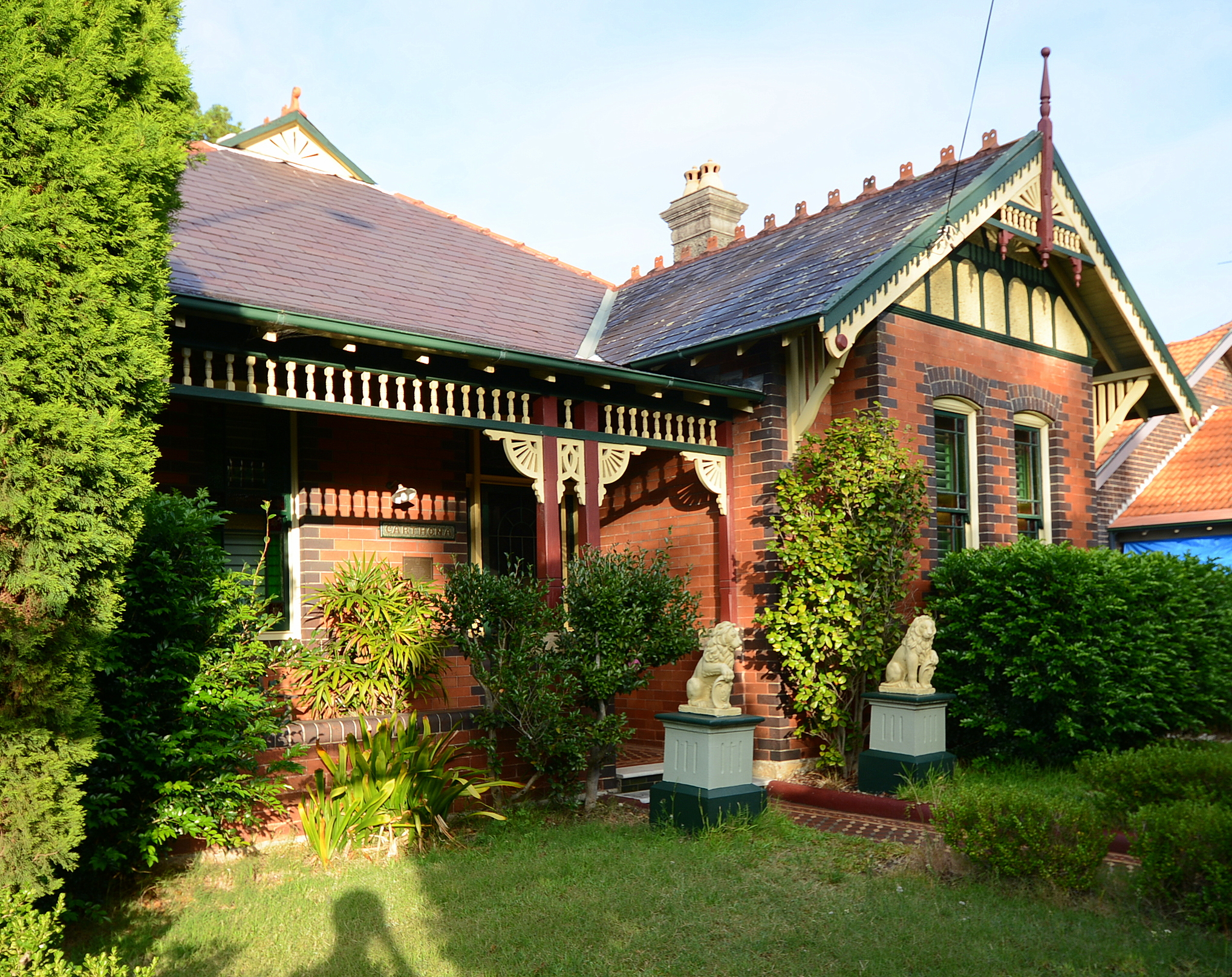 Carthona, Todman Avenue, Kensington, Sydney (Federation cottage heritage-listed by Randwick Council)